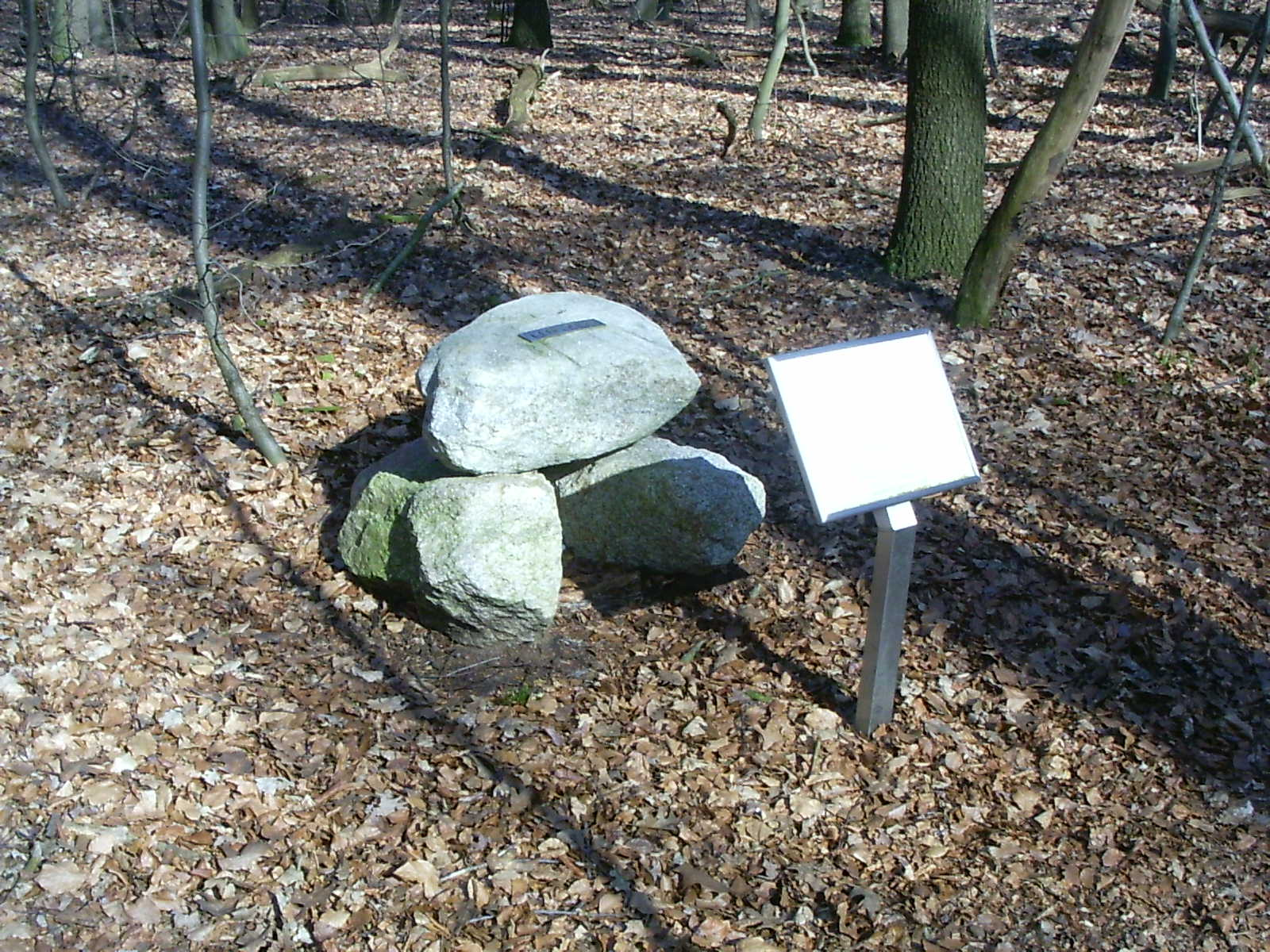 World War II memorial in the Bennekom forest